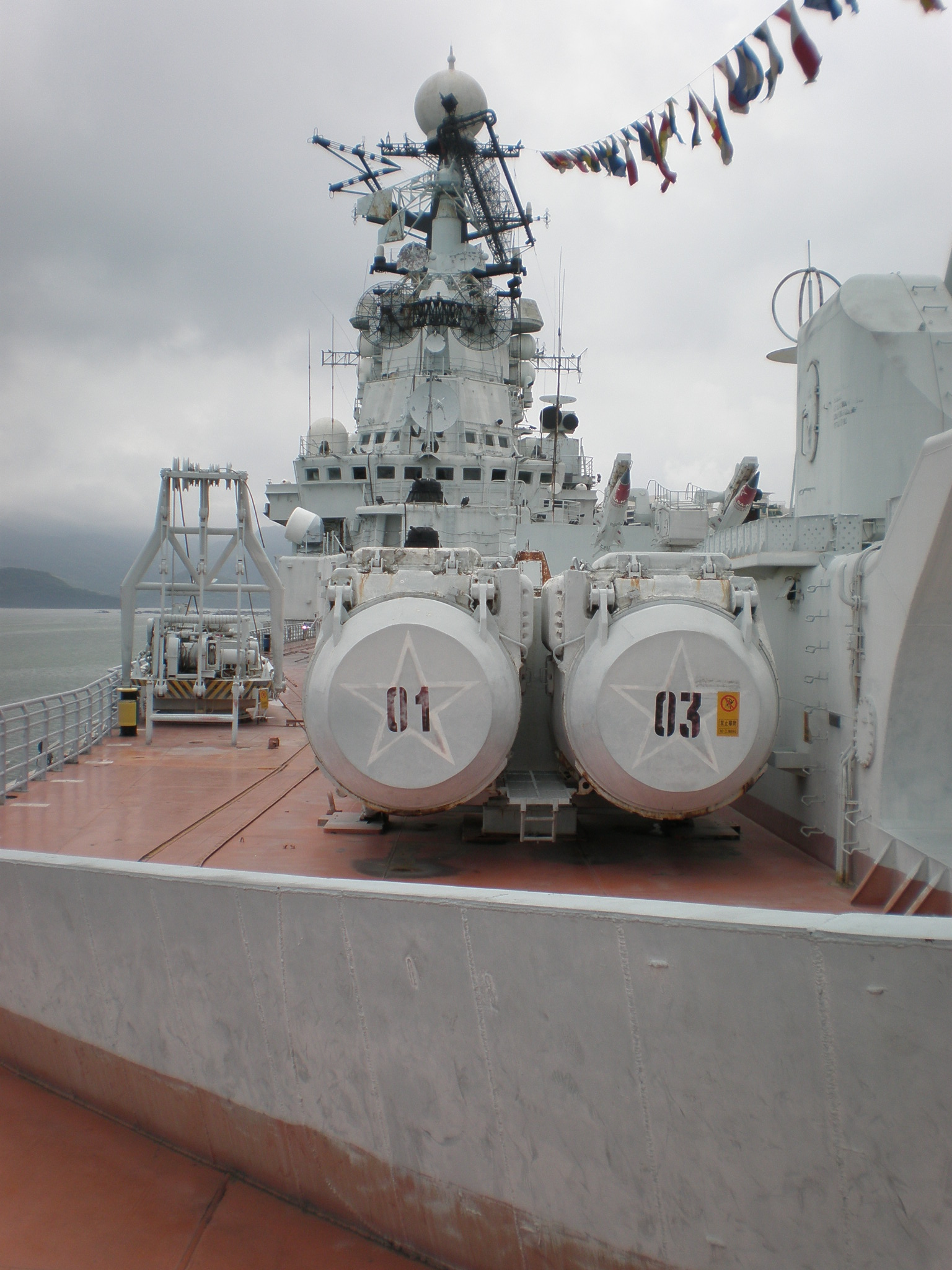 The front of SS-N-12 Sandbox launchers no. 1 and 3 on the port side of the bow of the former Soviet aircraft carrier Minsk. The Minsk is the centerpiece of the Minsk World military theme park in Shenzhen, China. Note that the launchers may be actually nos. 3 and 4, not 1 and 3.